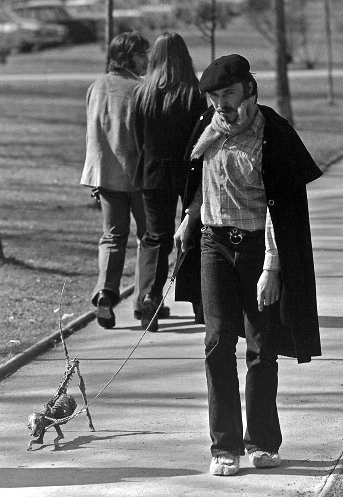 Lubo Kristek during the performance Promenade with a Neurotic Fox, Landsberg am Lech, 1975